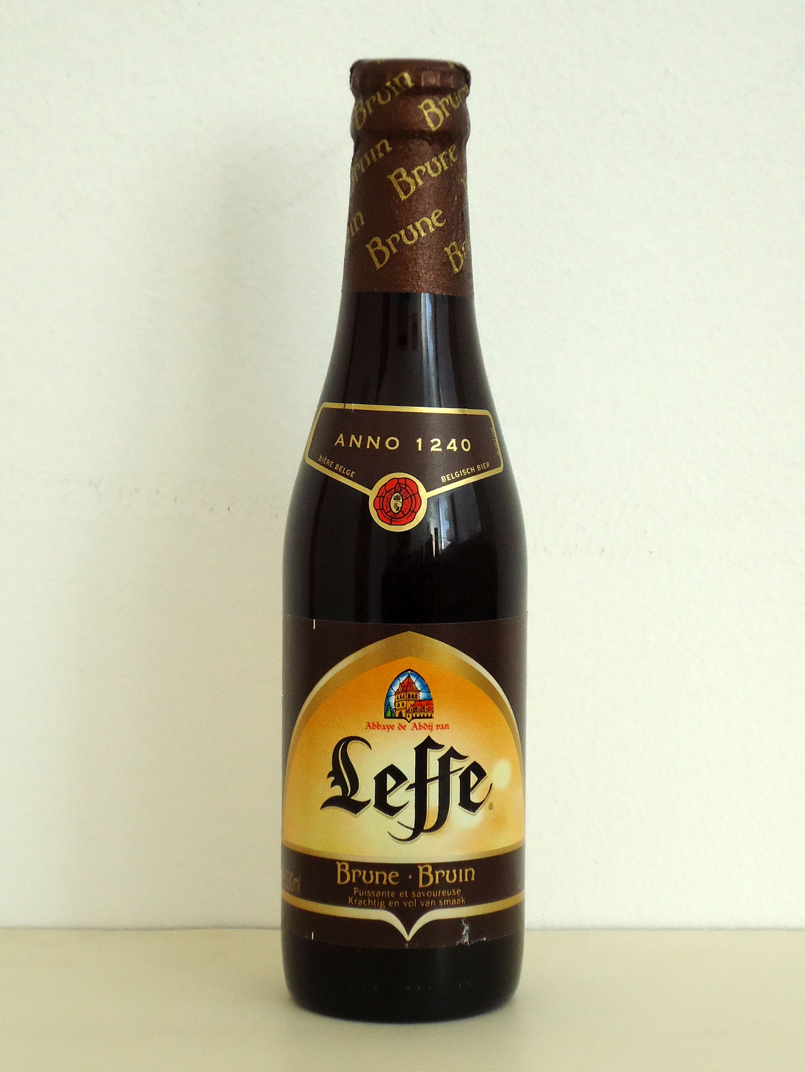 Leffe Brun